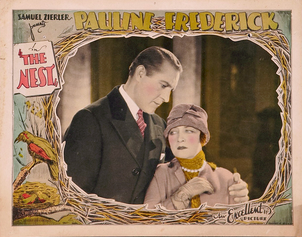 Lobby card for the American drama film The Nest (1927). There are no copyright marks on the card. At bottom right is Country of origin USA.